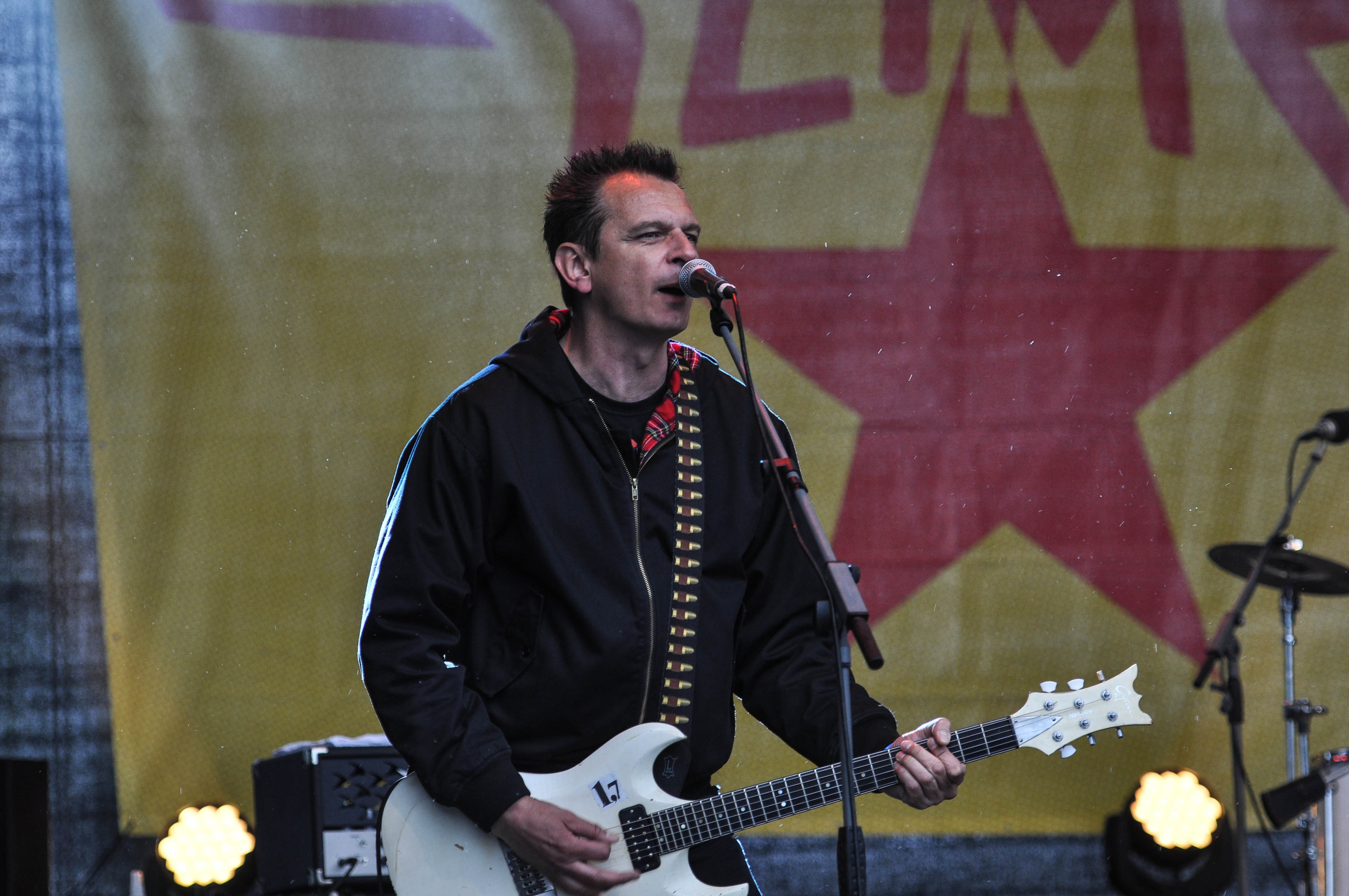 Festivalsommer This photo was created with the support of donations to Wikimedia Deutschland in the context of the CPB project "Festival Summer".